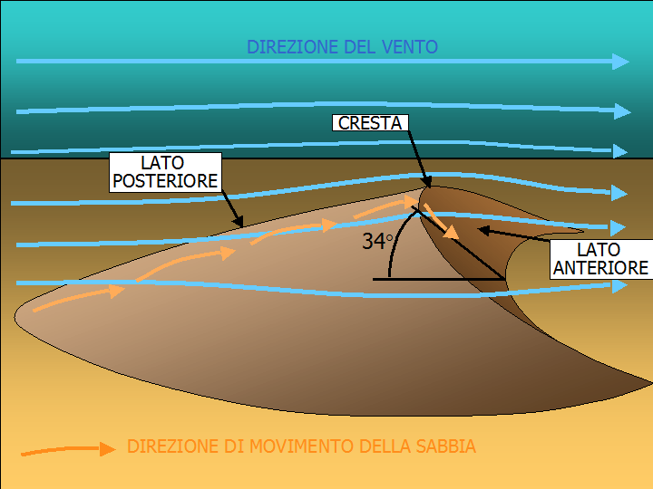 general scheme of eolian dune morphology; text in Italian